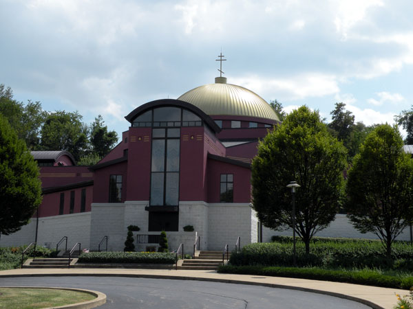 Picture of St. John the Baptist Byzantine Catholic Cathedral, built in 1993, and located at 210 Greentree Road in Munhall, Pennsylvania.